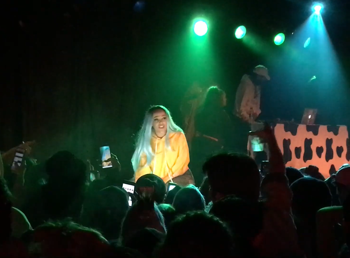 Doja Cat performing at The Cabooze, Minneapolis in October 2018 amid the popularization of "Mooo!", hence the cow-print style set